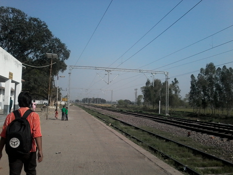 Sundhiyamau Railway Station.